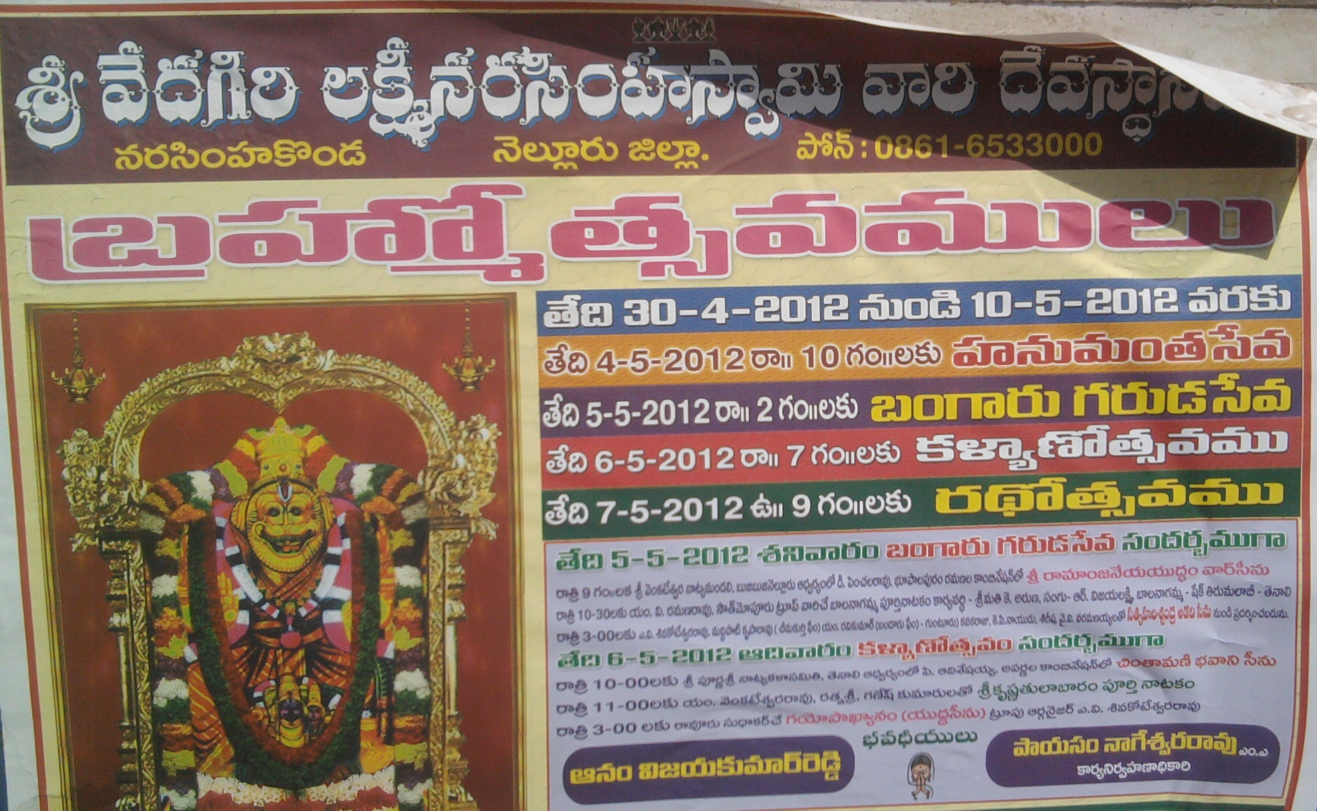 Vedagiri Lakshmi Narasimha Swamy Temple (Bramhotsava wall poster), Narasimhakonda, Nellore (dt), A.P